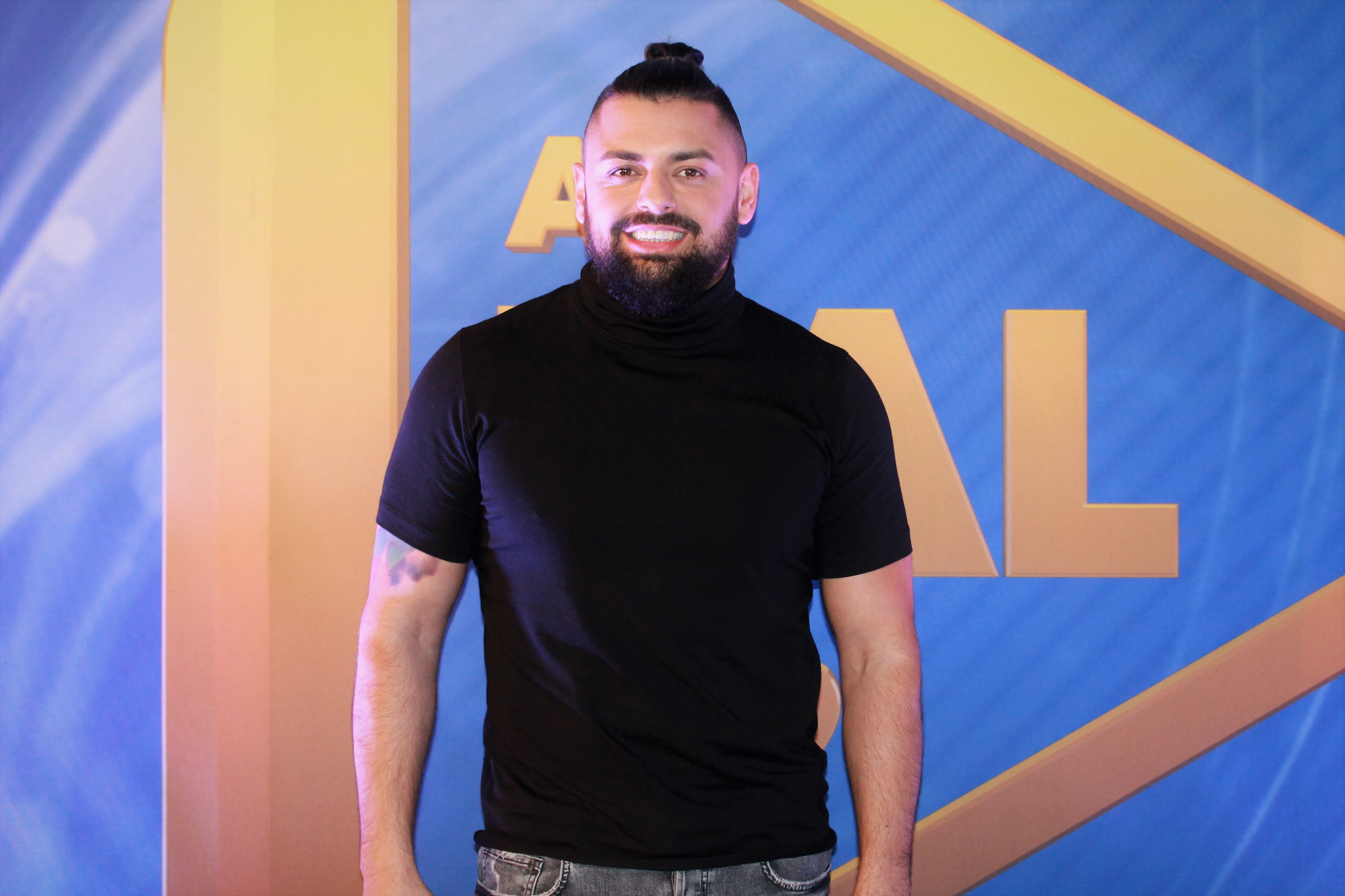 A Dal 2019 participant: Joci Pápai